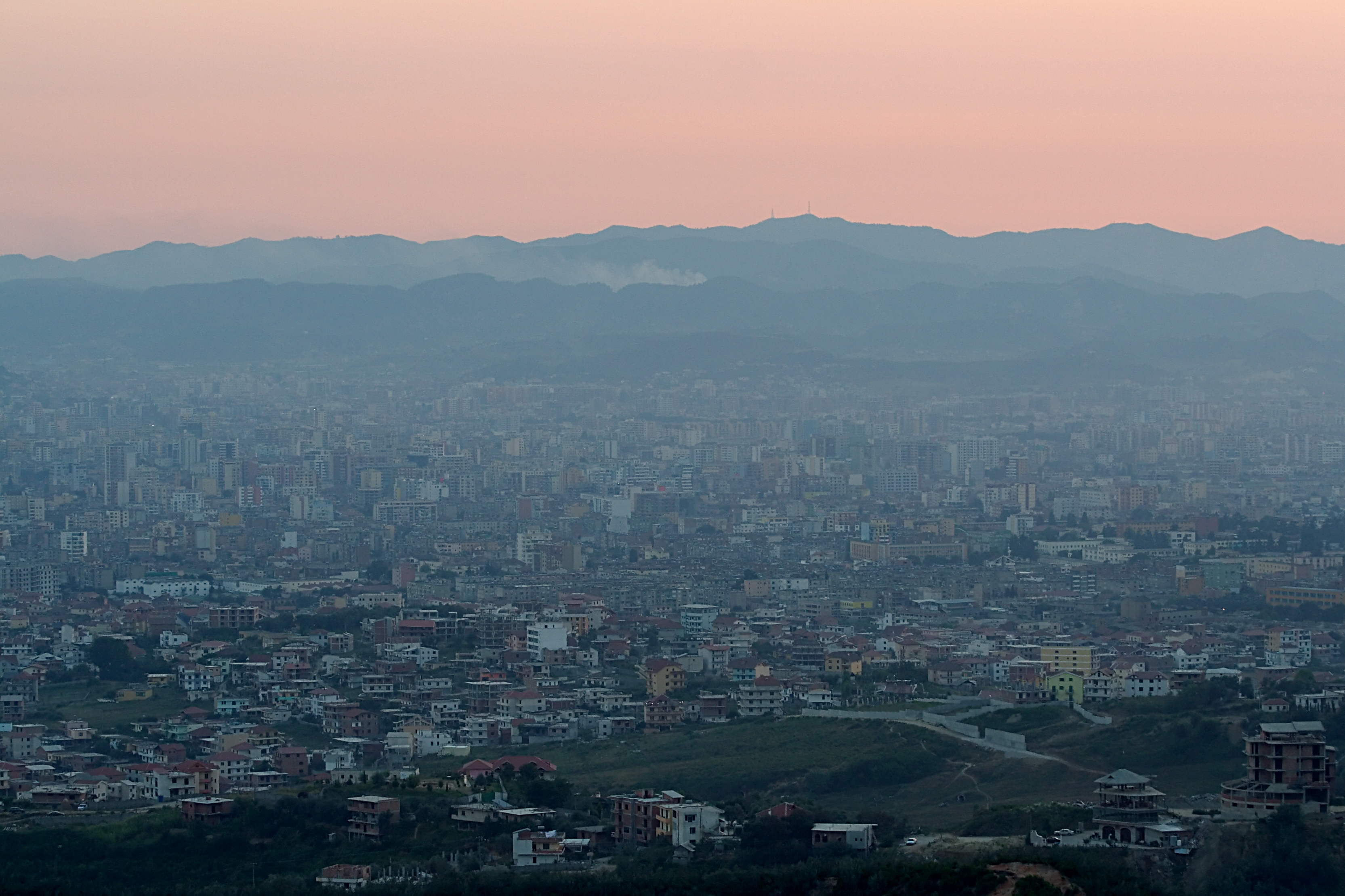 Tirana seen from Mount Dajti